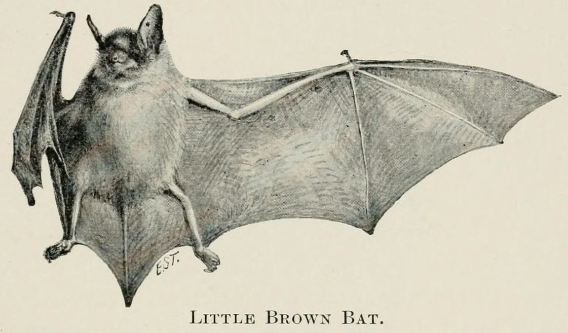 Illustration of the little brown bat, Myotis lucifugus, from Four-footed Americans and their kin / by Mabel Osgood Wright ; edited by Frank M. Chapman ; illustrated by Ernest Seton Thompson